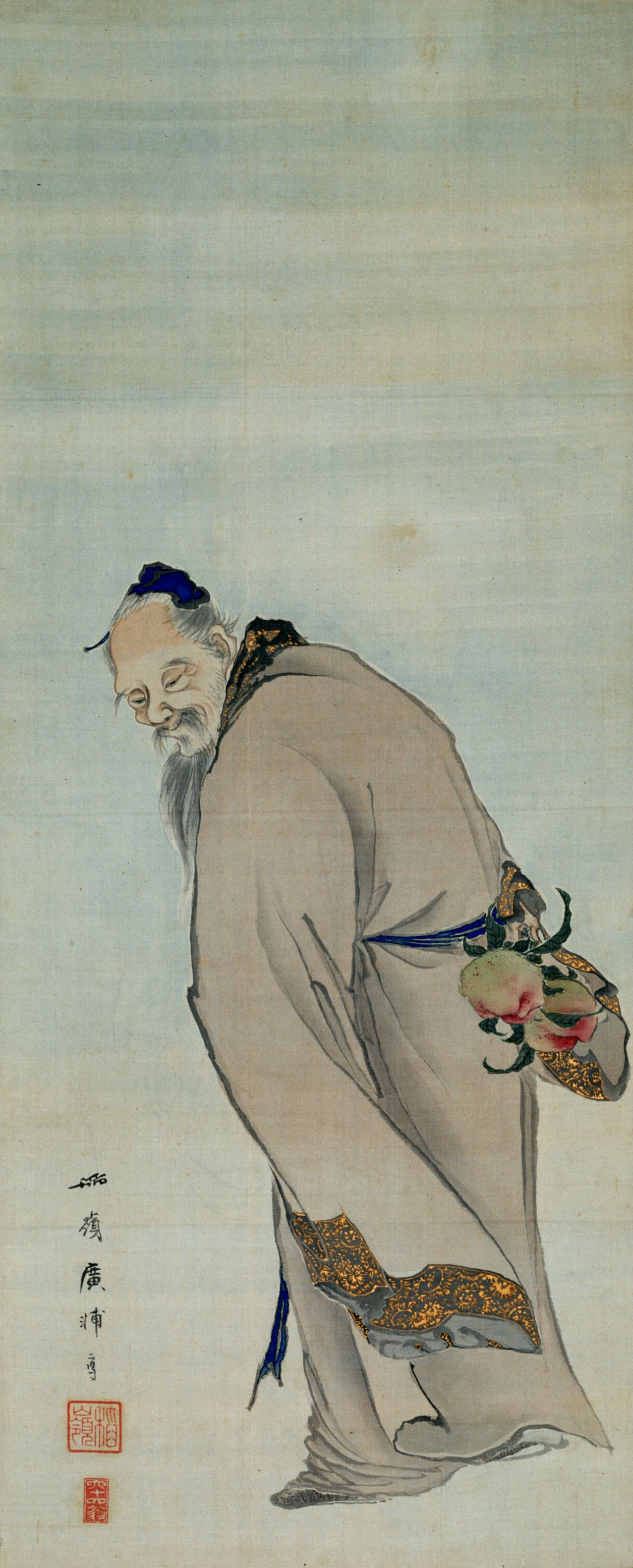 Tōhō Saku by Hijikata Tōrei, Tottori Prefectural Museum, Tottori, Tottori, Japan